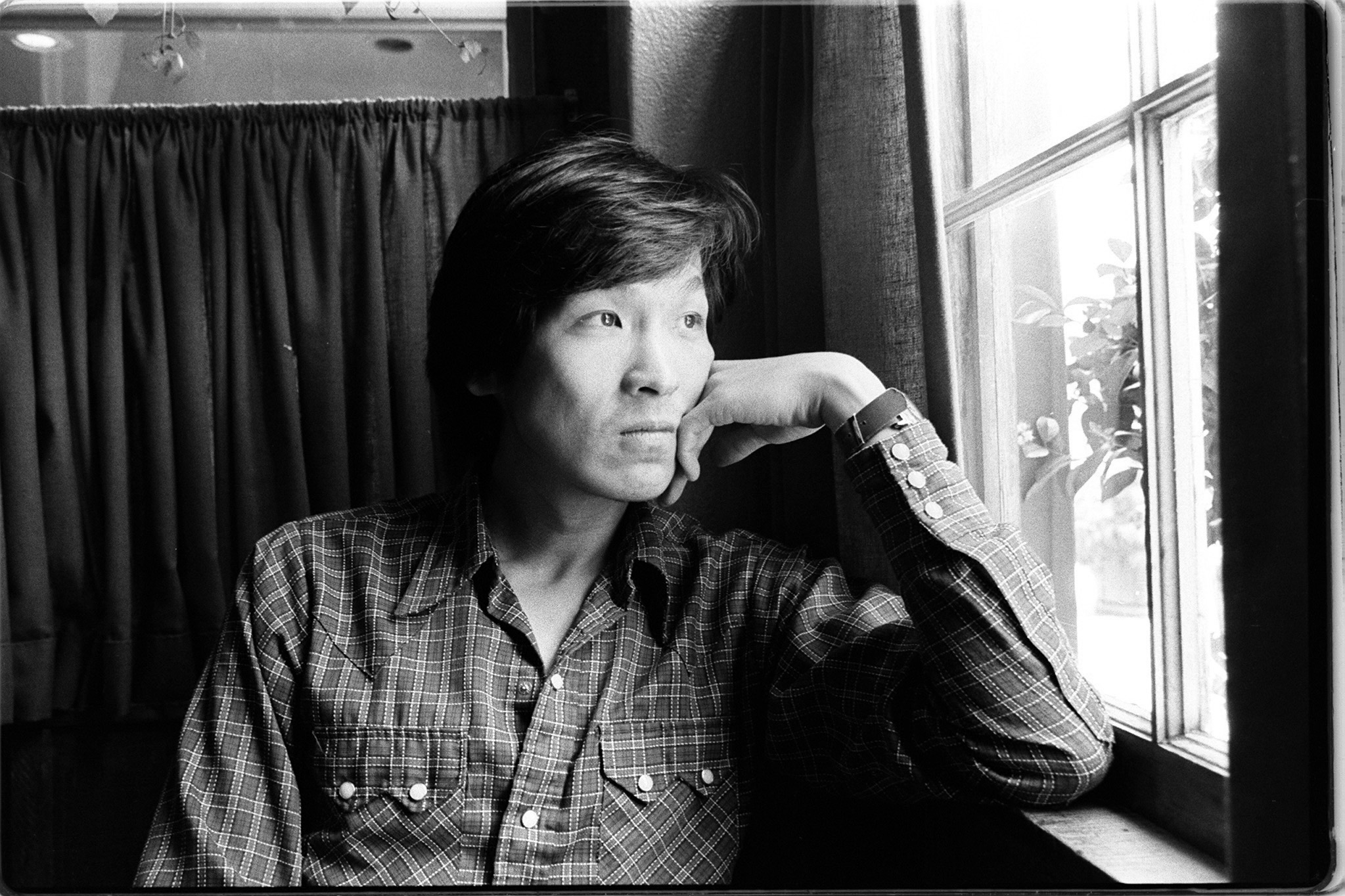 Wayne Wang, film director in 1980, Los Angeles, California. Photo by Nancy Wong